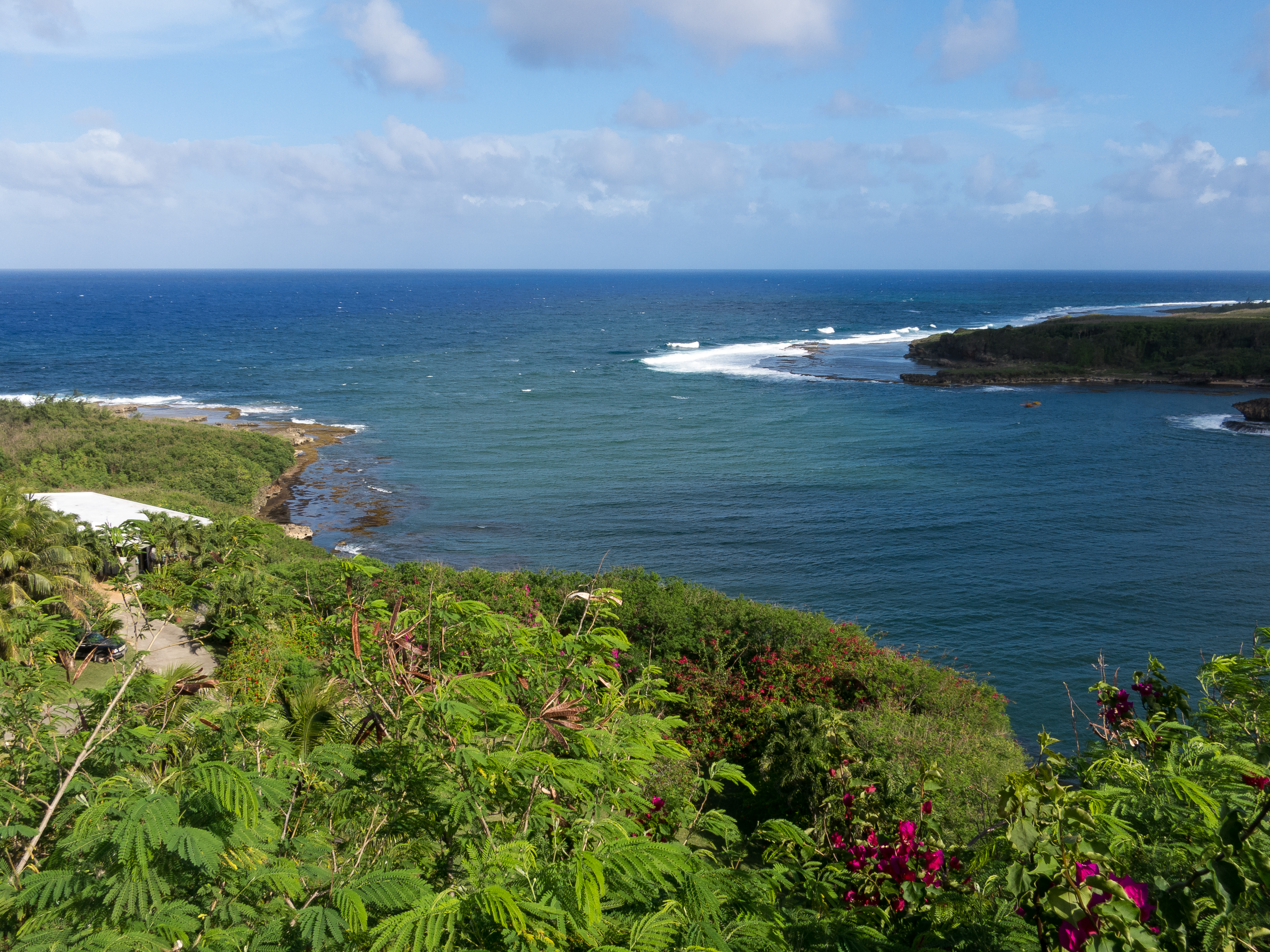 Talofofo is a funny word.